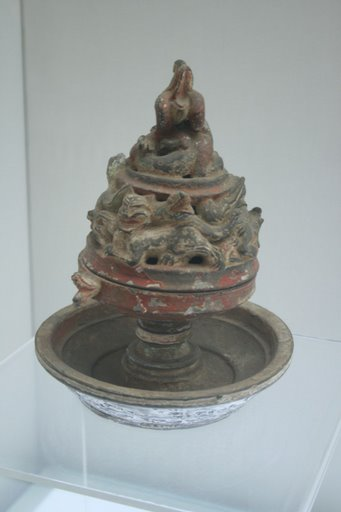 A Chinese Eastern Han Dynasty (25–220 AD) ceramic incense burner with pigment and animal designs.